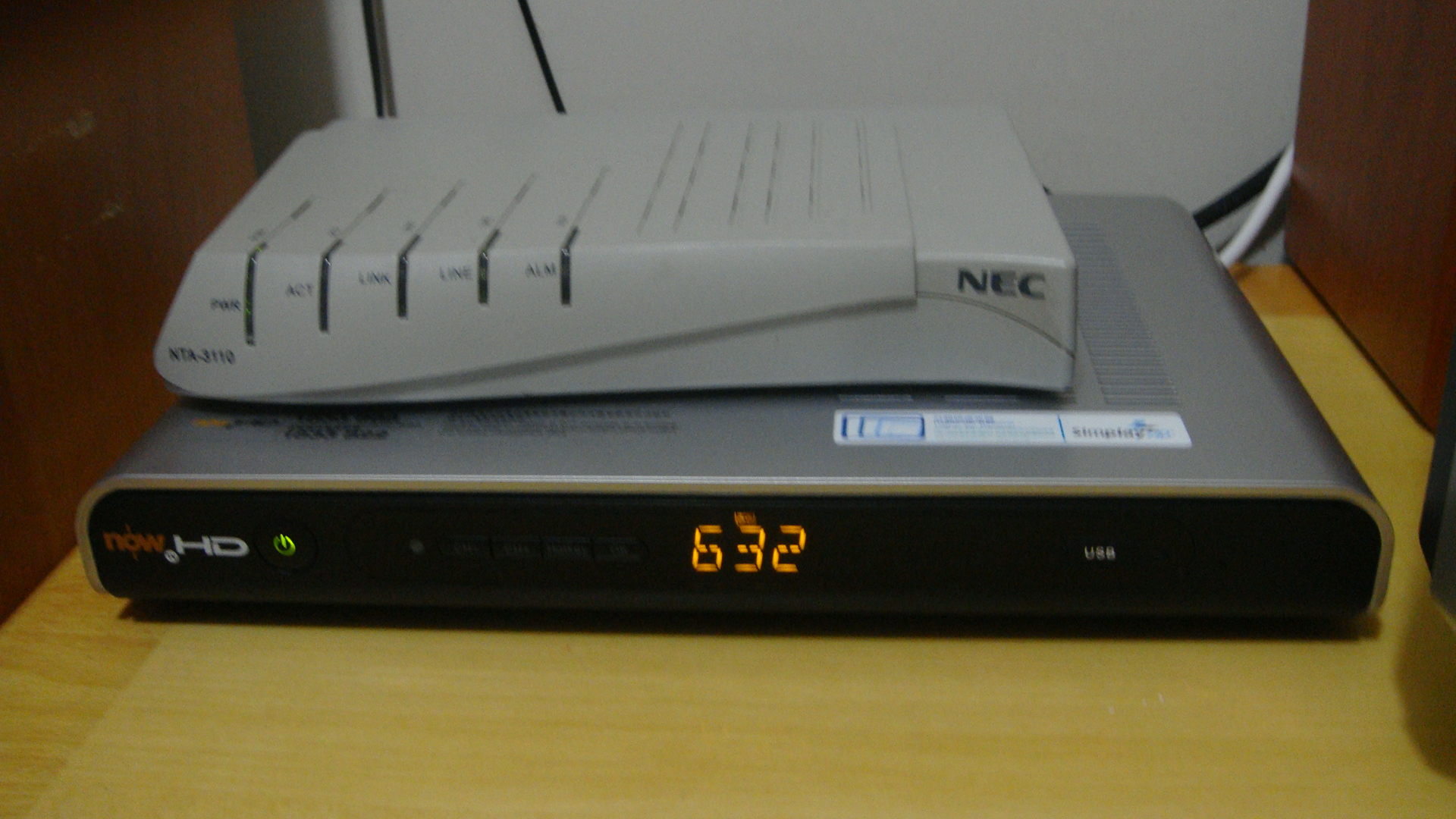 HDTV set-top box of Now TV.